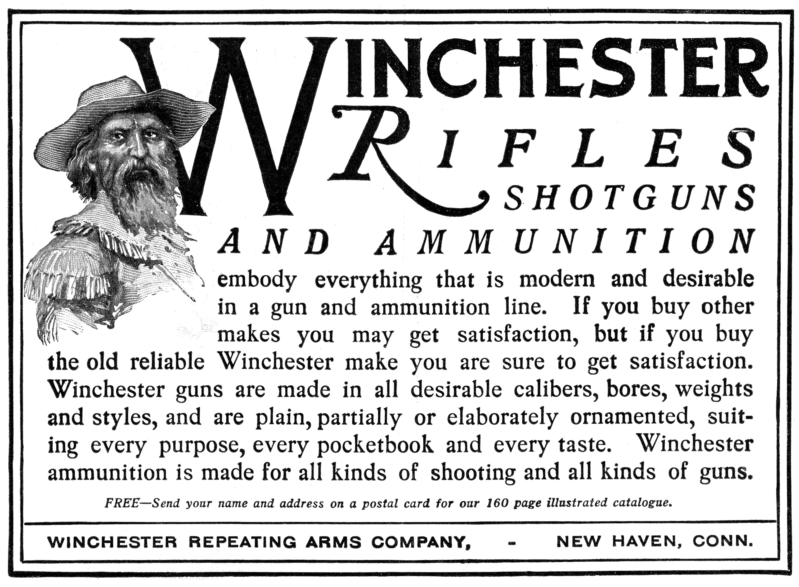 Advertisement for Winchester Rifles, Shotguns and Ammunition 1900